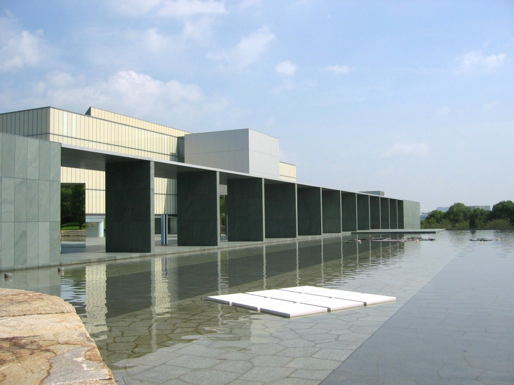 Toyota Municipal Museum of Art. Yoshio Taniguchi, architect, Built, 1995